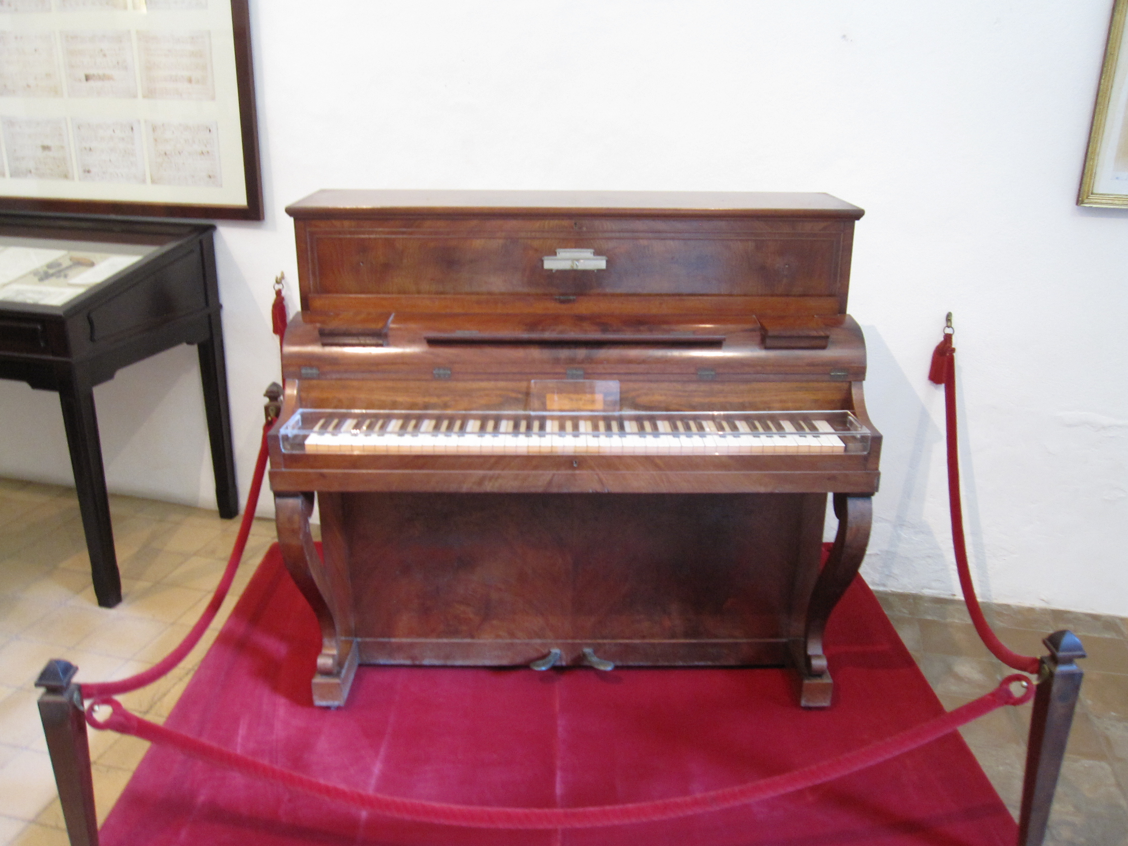 Cell No. 4 in Valldemossa, Majorca, with Chopin's piano C. Pleyel.